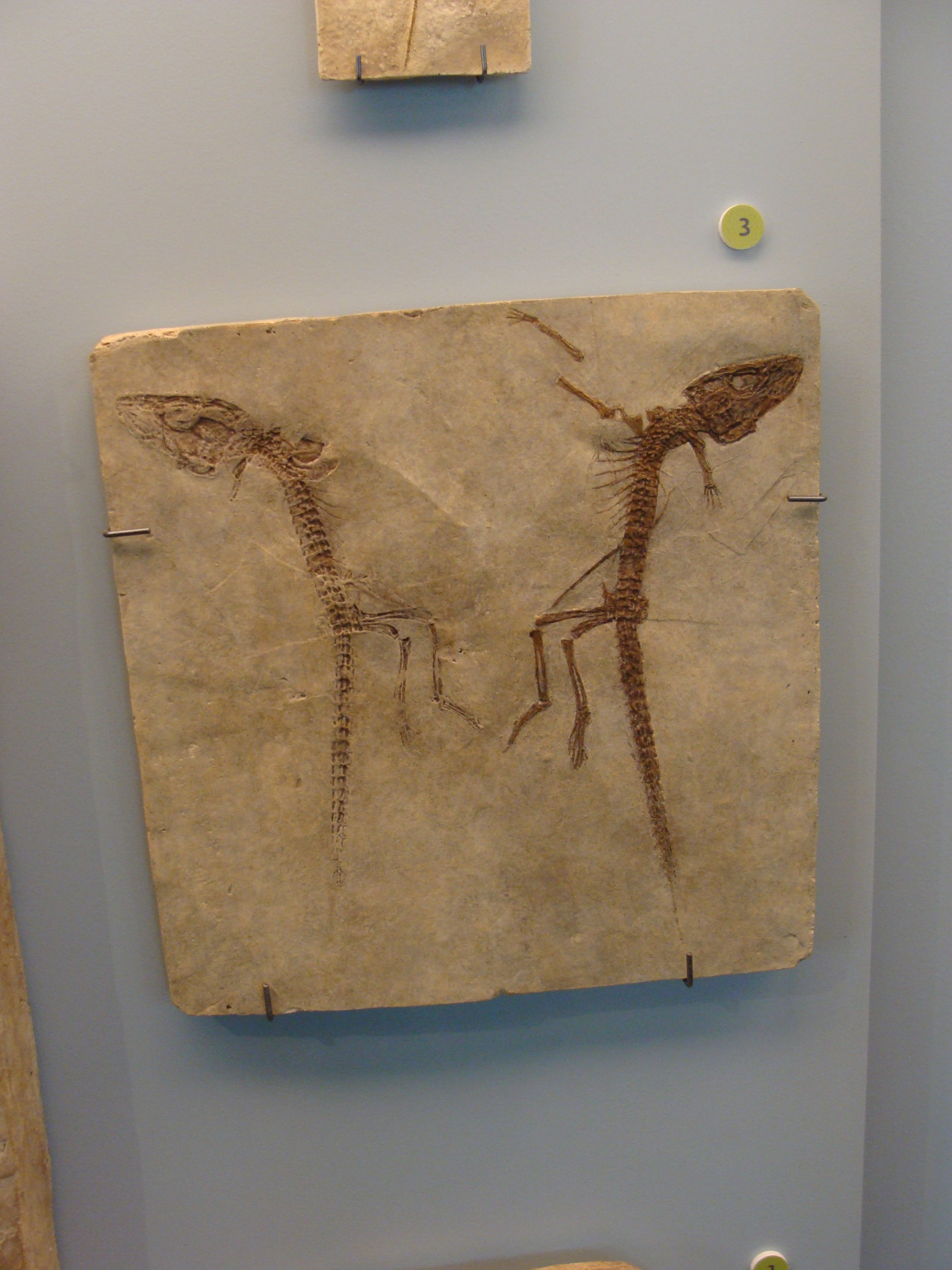 Alligatorellus beaumonti in the Royal Belgian Institute of Natural Sciences.